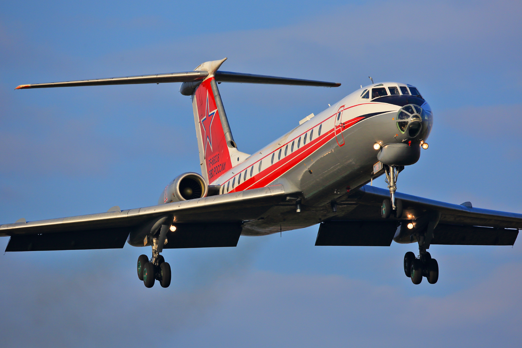 Russian Air Force Tupolev Tu-134SH